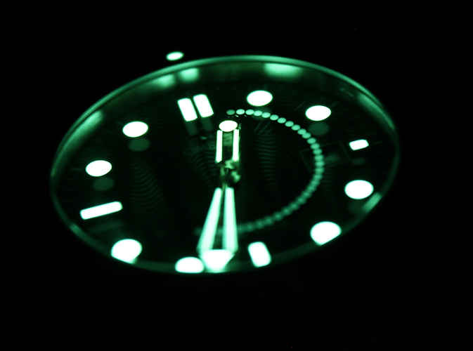 A long exposure photograph of a watch (30 seconds).